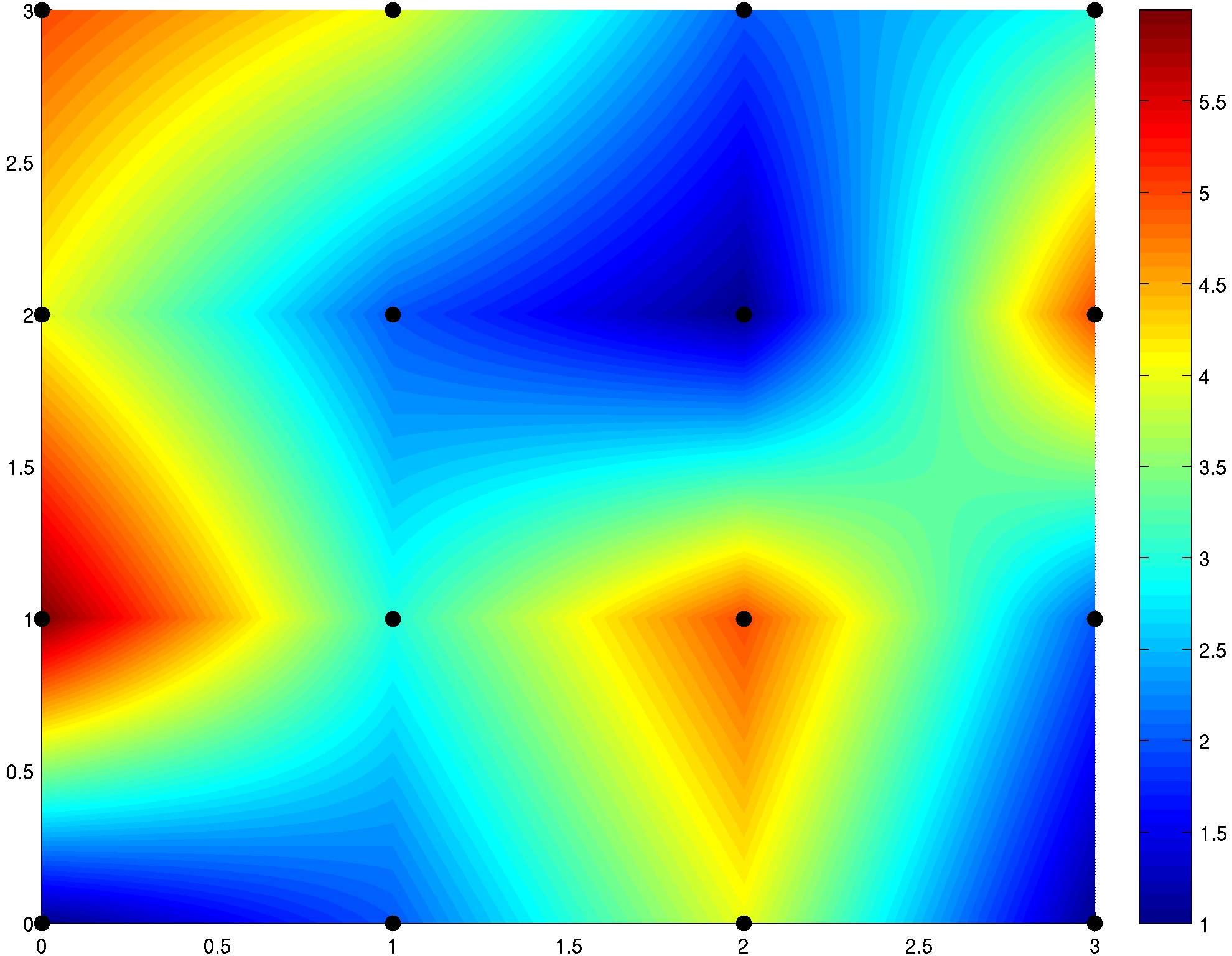 Illustration of Bilinear interpolation on a dataset. Compare with Image:Nearest2DInterpolExample.png and Image:BicubicInterpolationExample.png, they share the dataset.